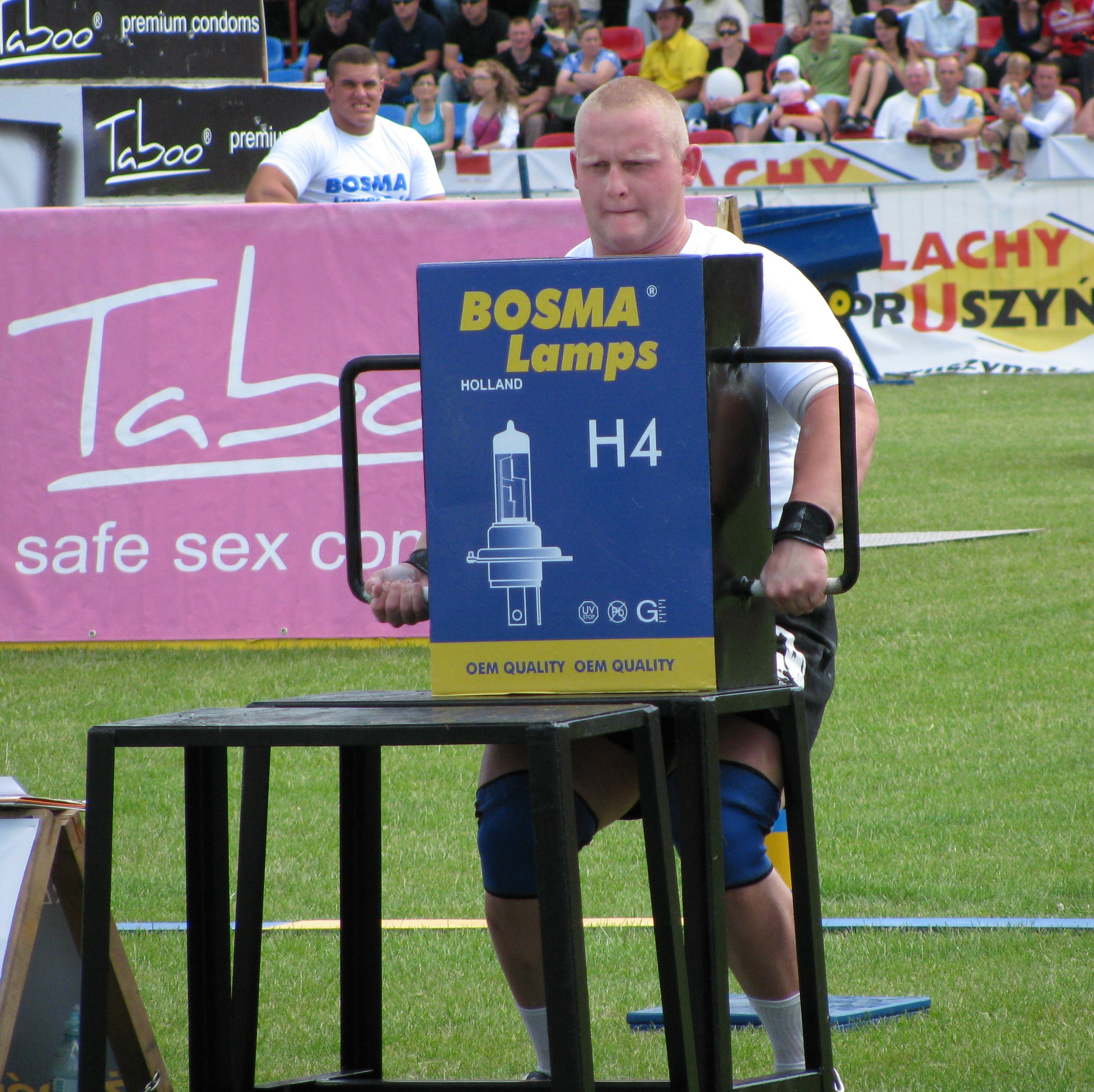 Strongmen event.